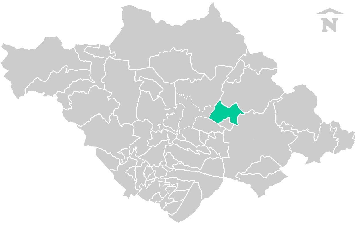 LOCATION OF XALOZTOC, MEXICO